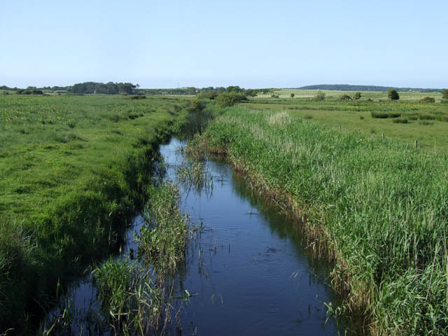 The Crigyll river near to Rhosneigr. This waterway that looks like a drainage ditch is actually the Crigyll river which enters the sea to the north of the village of Rhosneigr